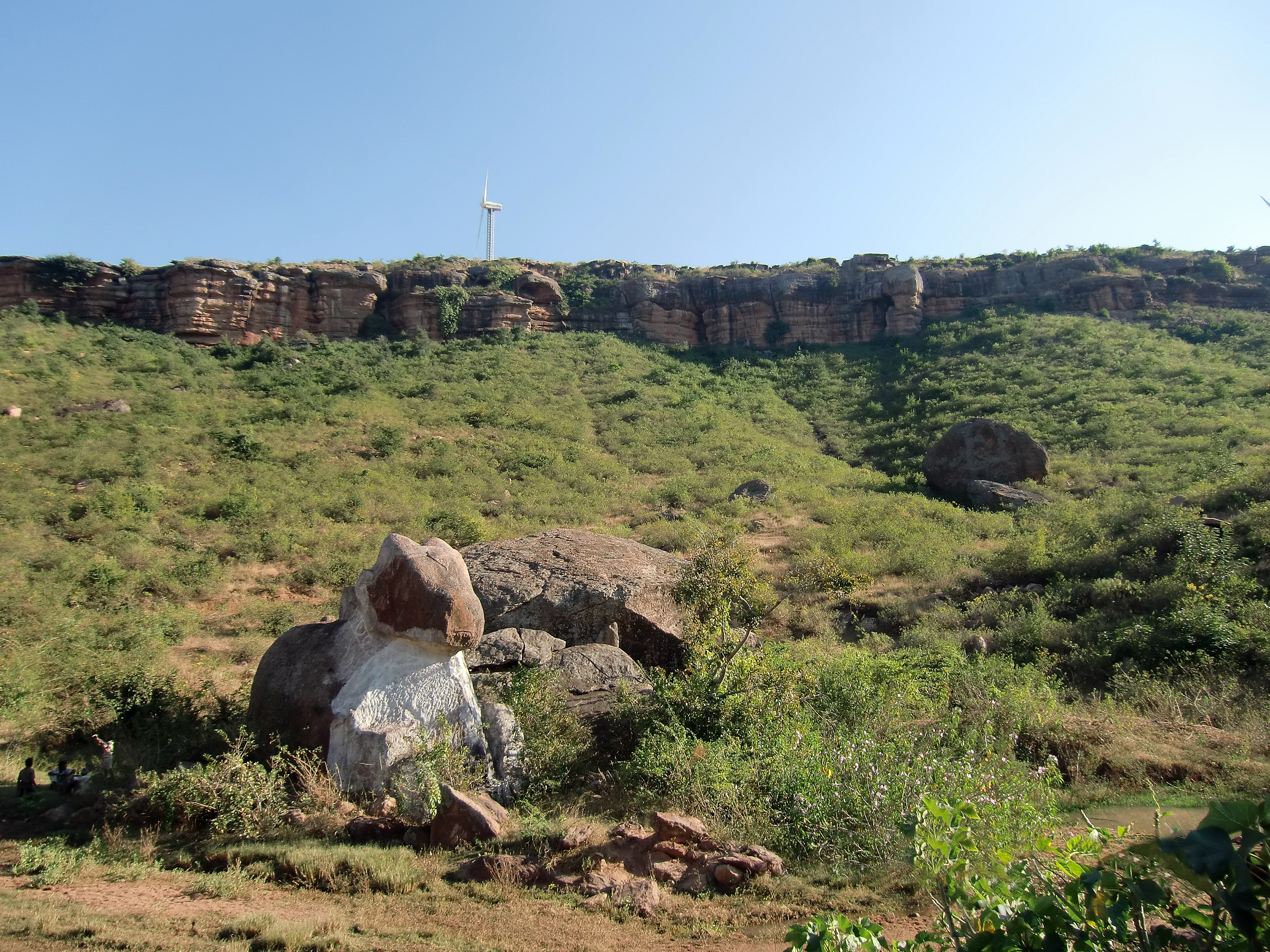 Incomplete Nandi at Gajendrgad near Kalkaleshwara temple.